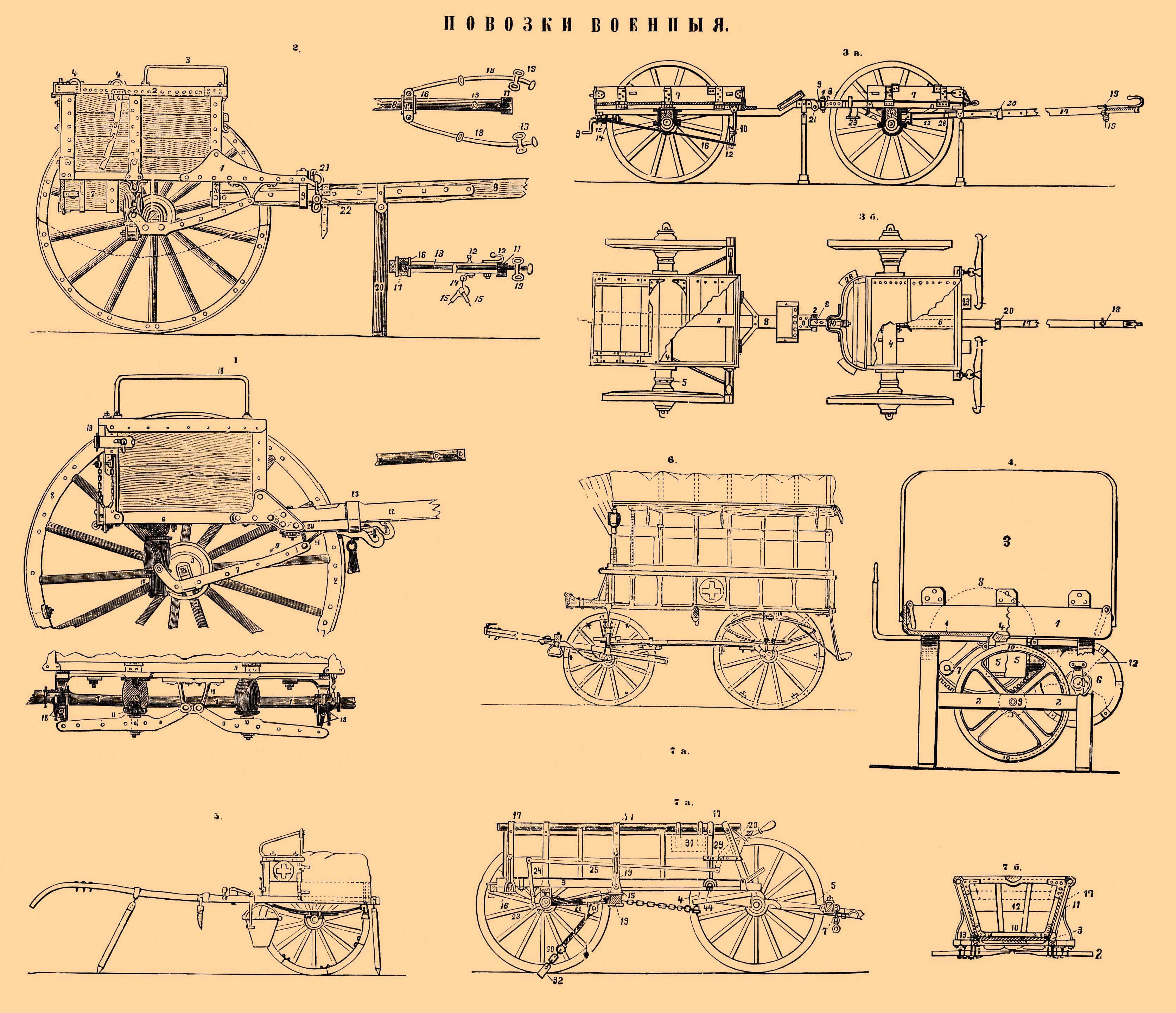 Illustration from Brockhaus and Efron Encyclopedic Dictionary (1890—1907)